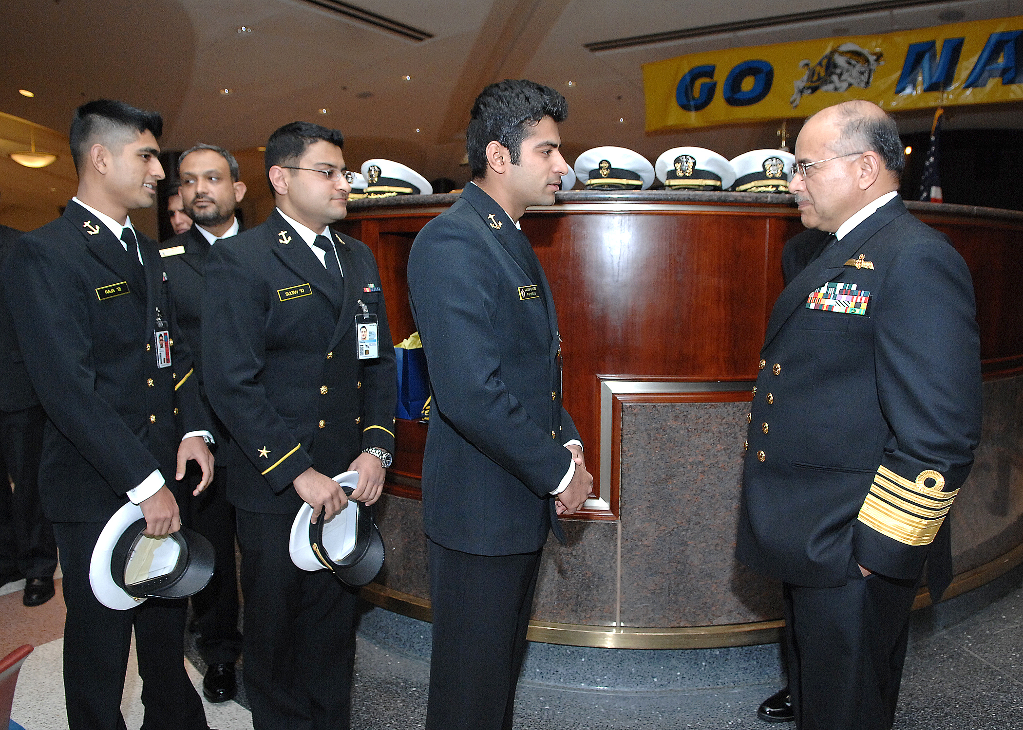 ANNAPOLIS, Md. (March 22, 2010) Chief of Naval Staff of the Pakistan Navy Adm. Noman Bashir, right, meets with Midn. Qasim Idrees and other Pakistani exchange students while visiting the U.S. Naval Academy. Bashir is scheduled to meet with various U.S. military and government officials to discuss opportunities for continued coordination and cooperation between the U.S. and Pakistan navies. (U.S. Navy photo by Gin Kai/Released)